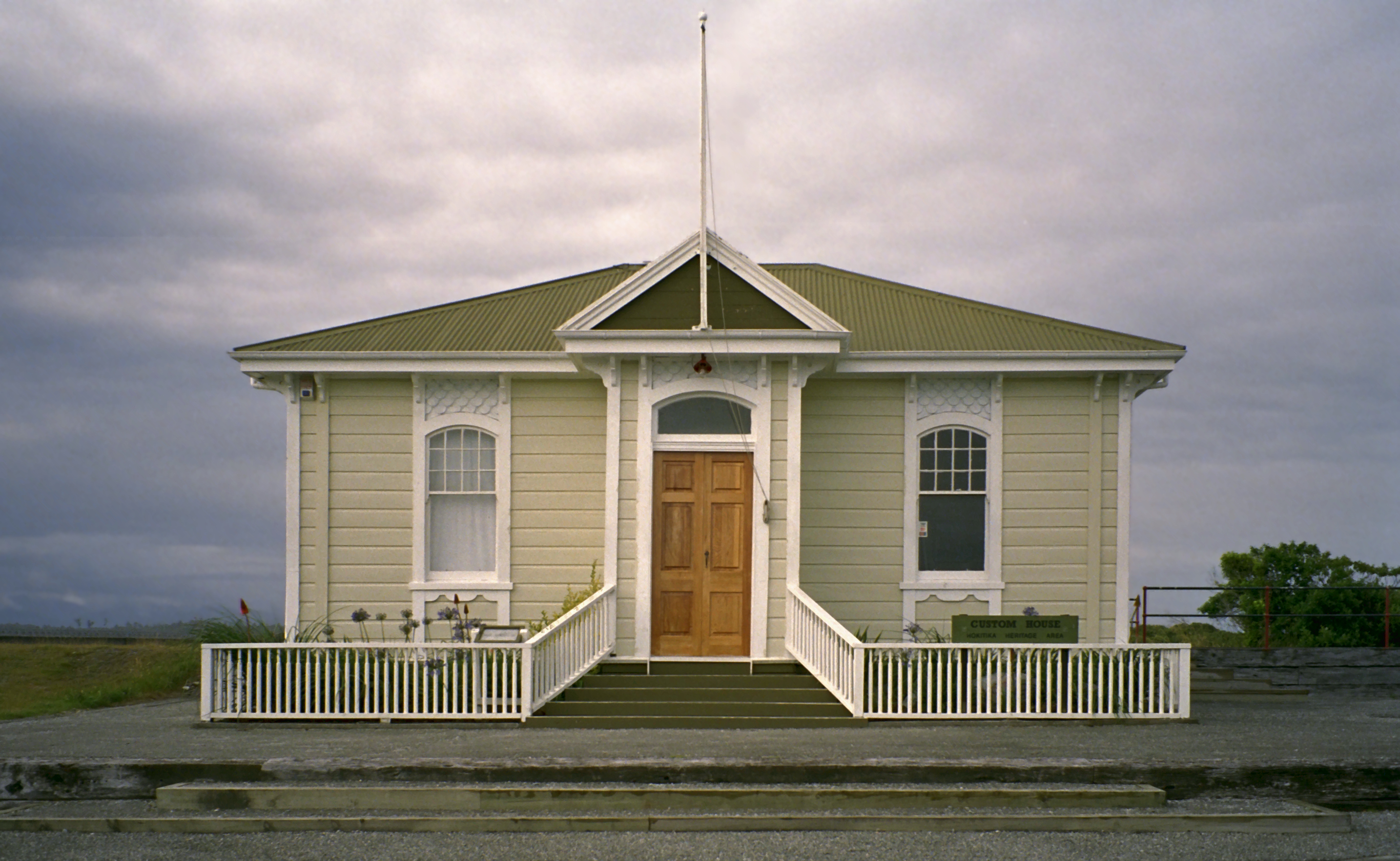 The Hokitika Customhouse is a Category I New Zealand historic place. See its listing at the NZ historic places trust register for more details.